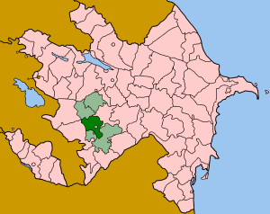 Map of Azerbaijan showing Khojali (Xocalı) rayon. It is completely part of Nagorno-Karabakh and corresponds to the local province of Askeran.